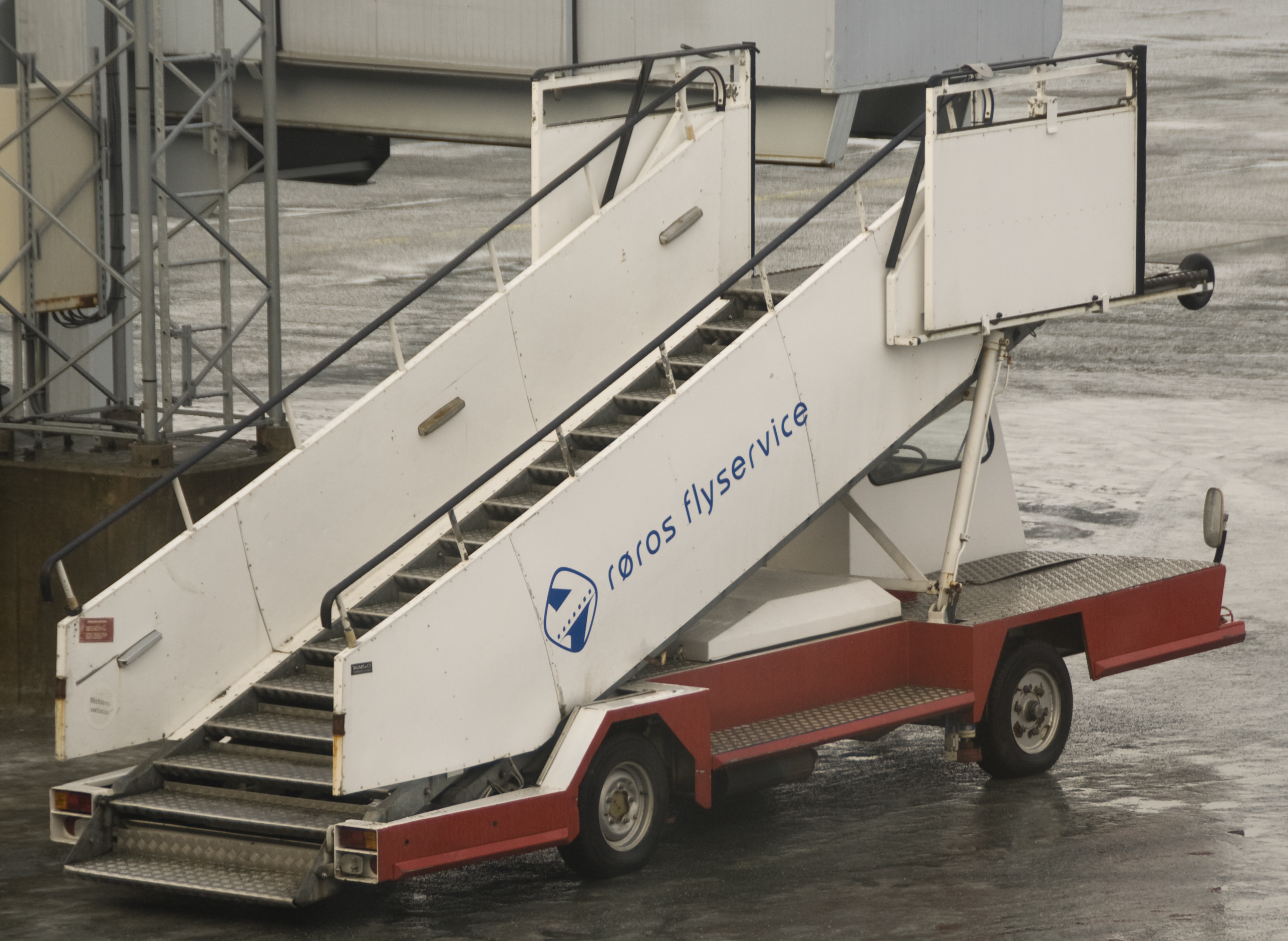 Røros Flyservice mobile stairs at Trondheim Airport, Værnes